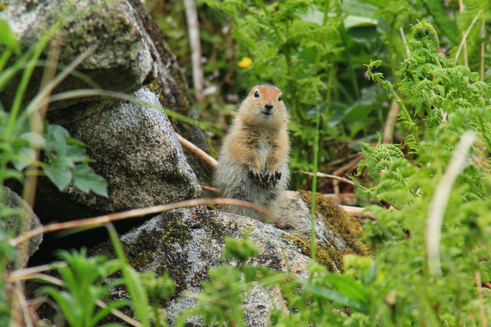 Arctic ground squirrel by Matt Henschen/USFWS.